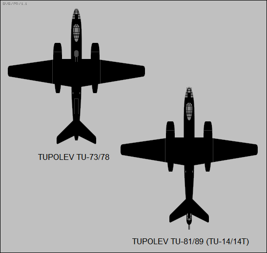 Plan-view silhouettes of the Tupolev 73/Tupolev 78 and Tupolev 81/Tupolev 89 (Tu-14/Tu-14T)